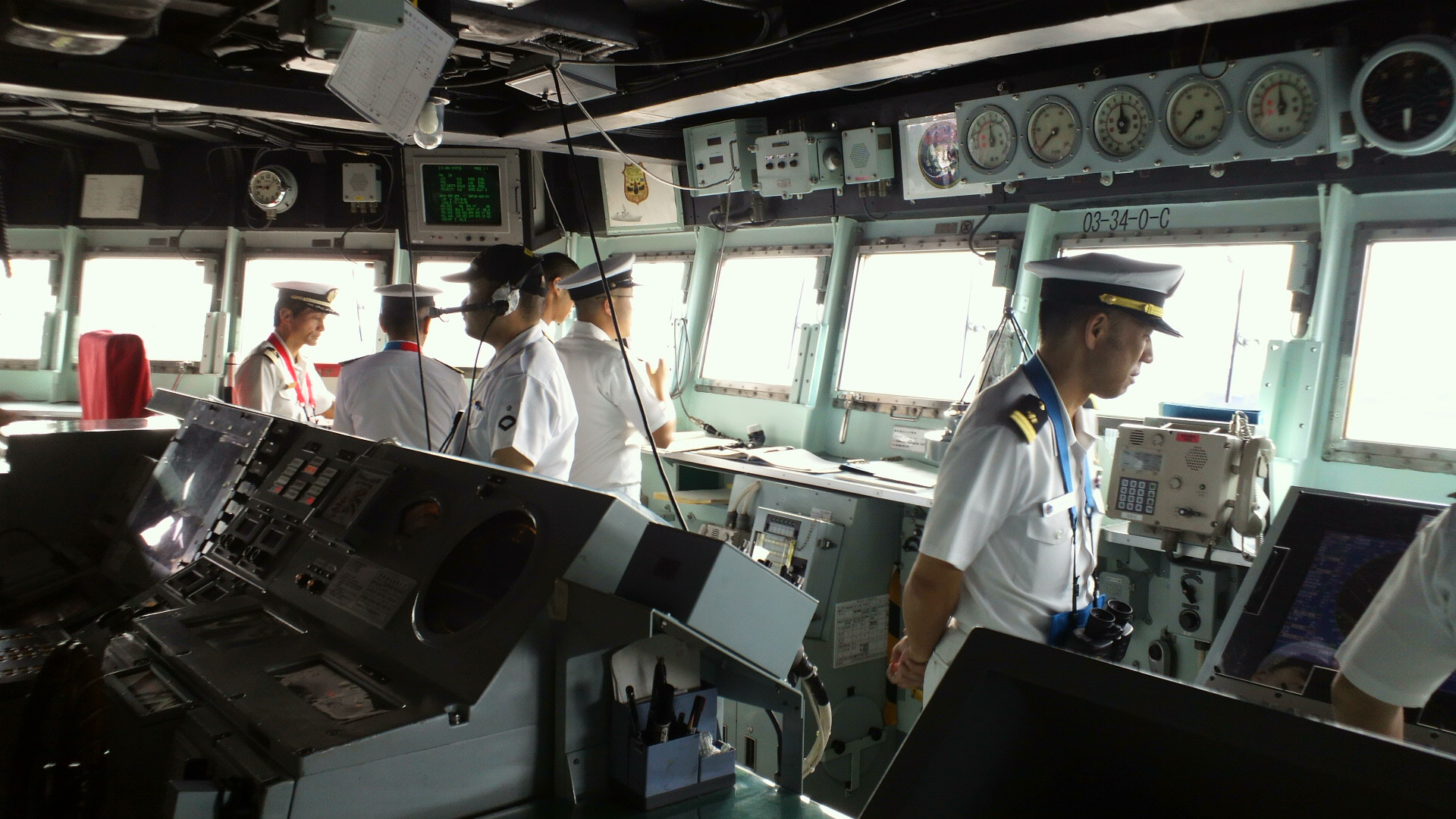 The bridge of JS Inazuma (DD-105) being opened to the public while moored pierside at Ōita.